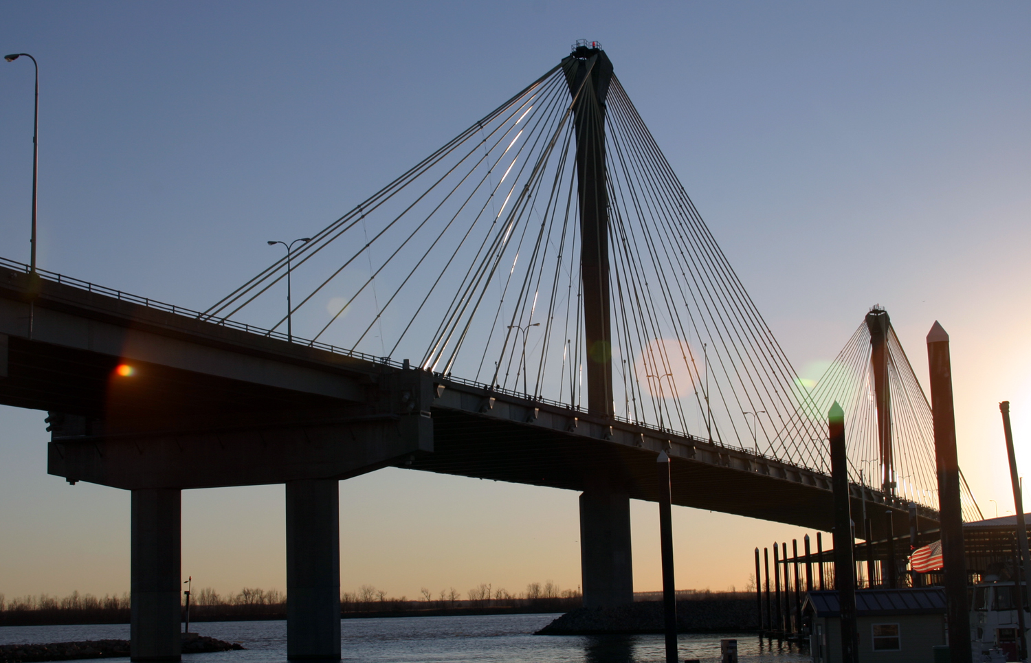 This is a picture of the Clark Bridge, a bridge that spans the Mississippi River connecting Alton, IL to West Alton, MO.